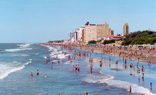 View of Mar de Ajo's beach